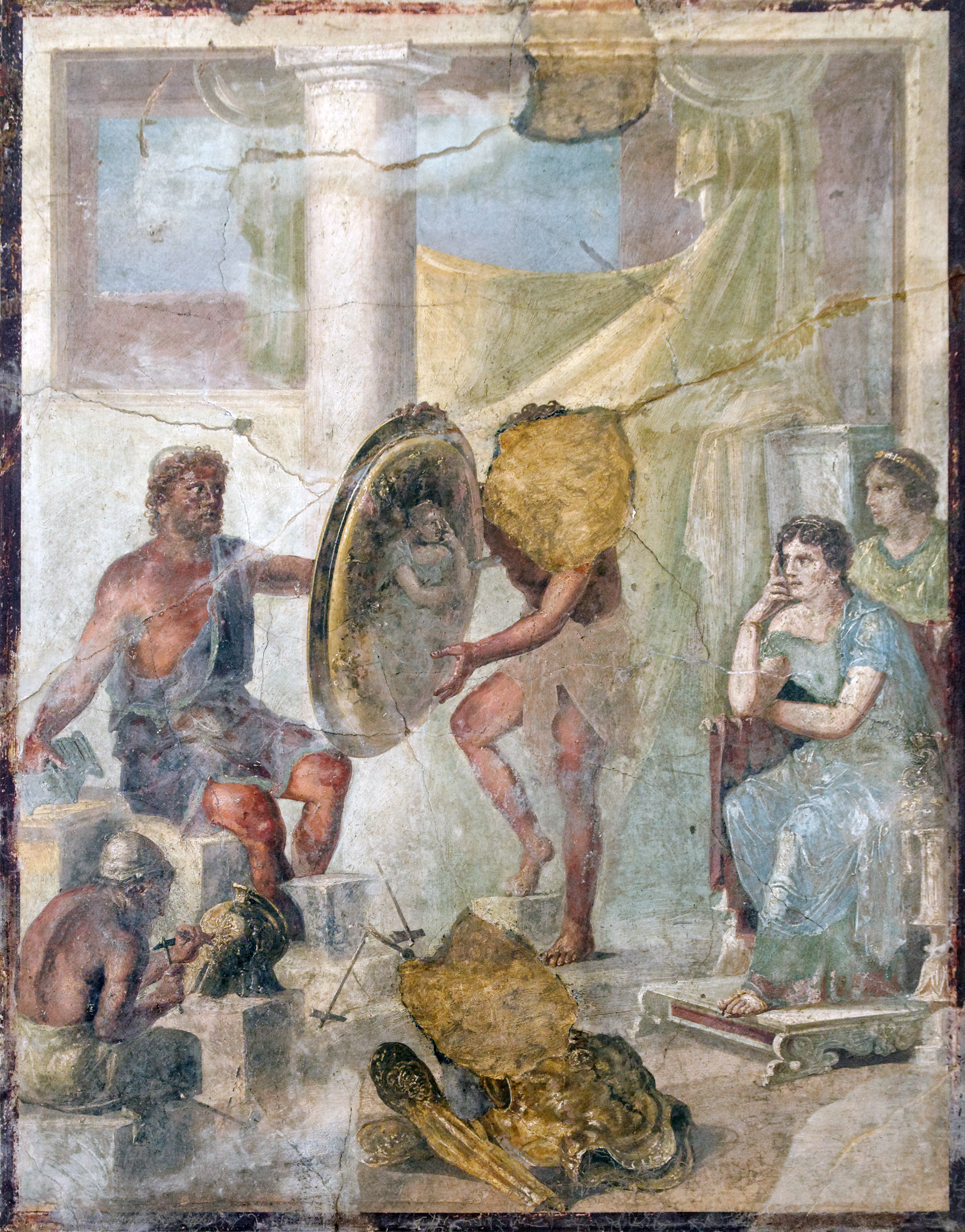 Thetis at Hephaestos' forge waiting to receive Achilles' new weapons.